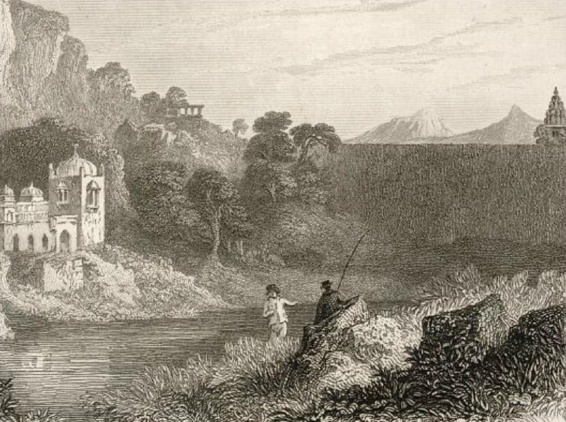 Engraving entitled "Source of Bairis River" (now Banas River). Plate 23 of James Tod's Annals and antiquities of Rajast'han or the Central and WEstern Rajpoot States of India published in London in 1829. About this scence, Tod wrote: "Here we amused ourselves in chalking out the site of our projected residence on the heights of the Toos, and in fishing at the source of the Baris. Of this scene I present the reader with a view; and if he allows his imagination to ascend the dam which confines the waters of the lake, he may view the Oodi-sagur, with its islets..."